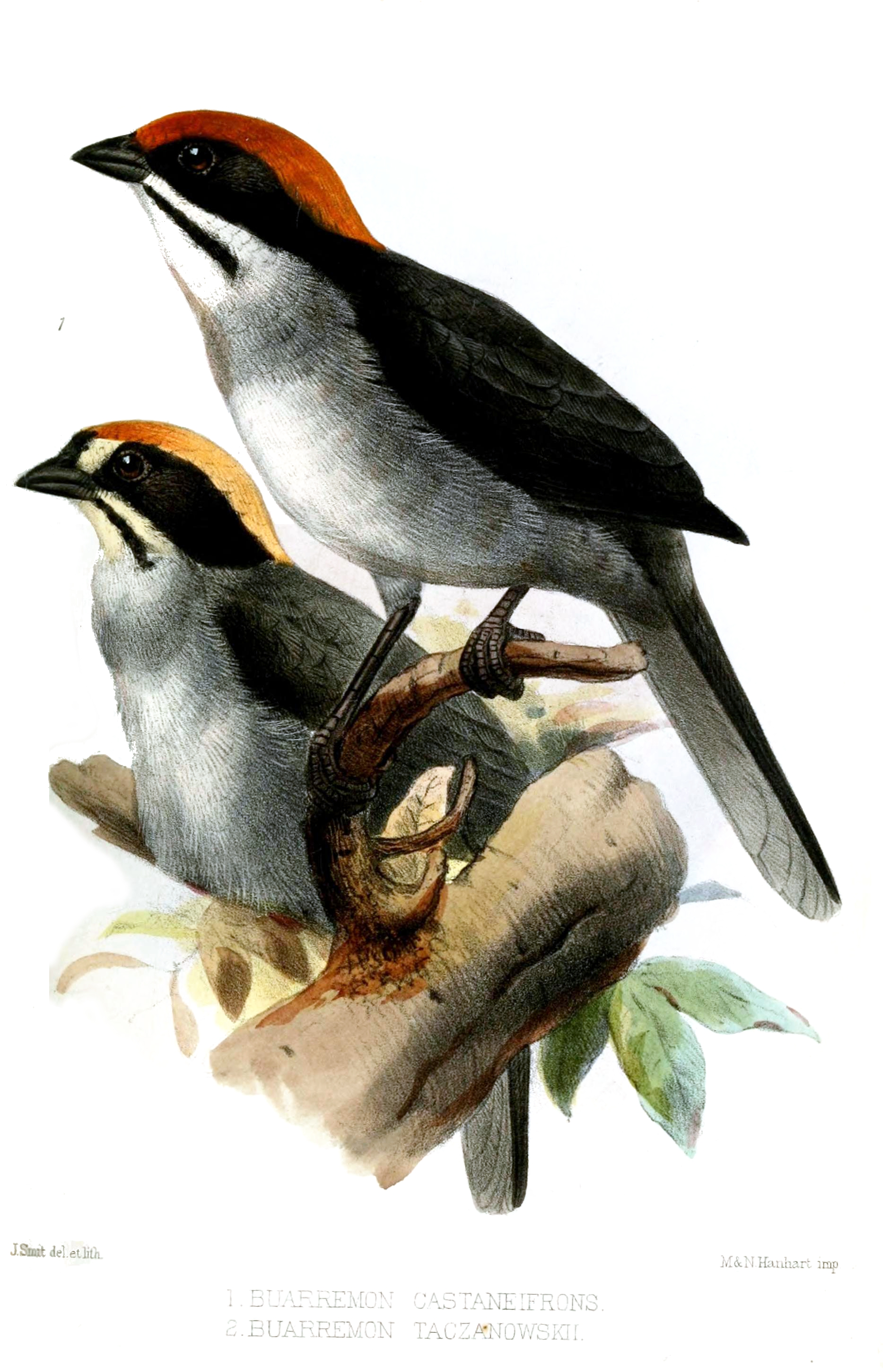 Buarremon castaneifrons = Atlapetes schistaceus castaneifrons[1] Buarremon taczanowskii = Atlapetes schistaceus taczanowskii[2]